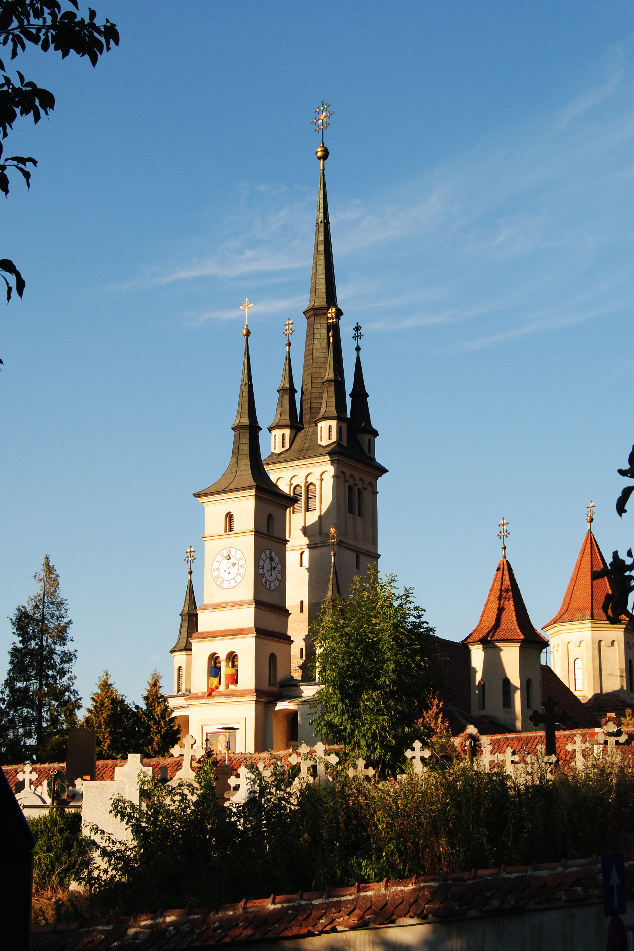 Saint Nicholas church from Brașov, RomaniaRomână: Biserica "Sf. Nicolae" cu paraclisele (Bunavestire și Înălțarea Domnului) 01